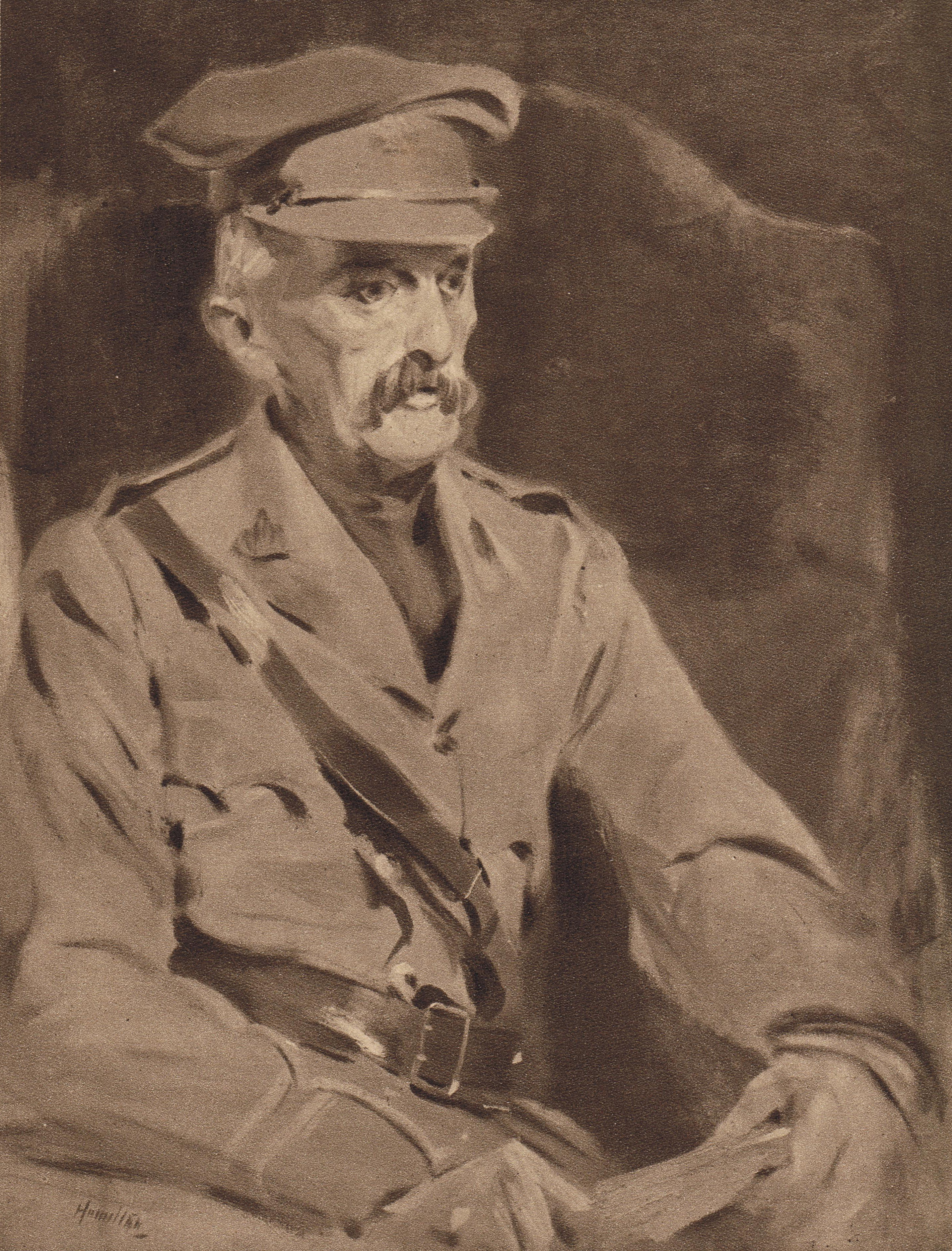 Scan of plate (cropped version) facing p. 242 from Men I Have Painted by John McLure Hamilton. A portrait of Walter Tyndale by Mr. Hamilton. From a portrait painted at The Hermitage